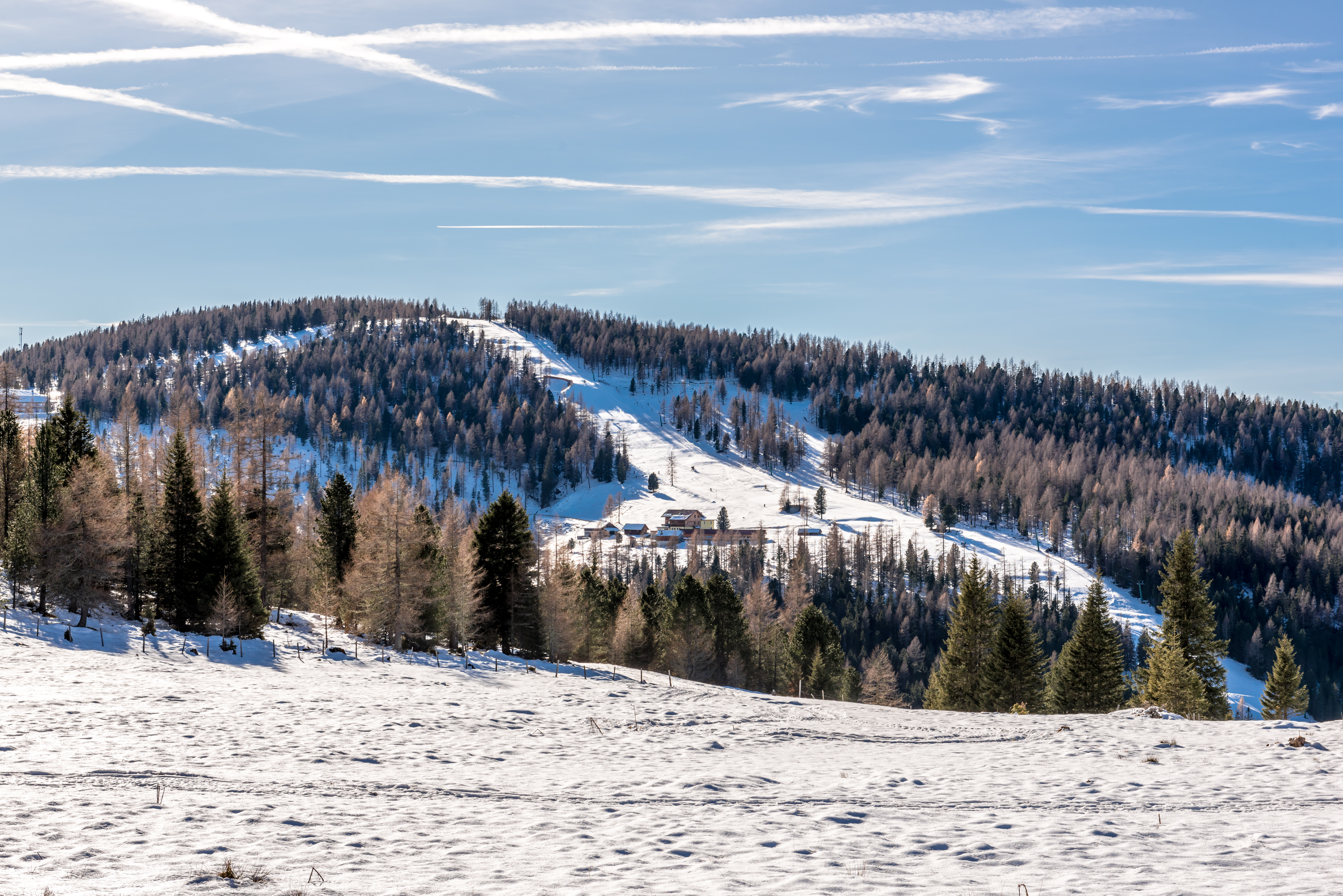 Ski slopes in Hochrindl, municipality Albeck, district Feldkirchen, Carinthia, Austria, EU